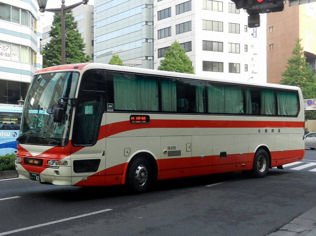 Hokuriku Railway bus Mitsubishi Fuso Aero Queen (PJ-MS86JP) for highwaybus Etoile,Kanazawa-Yamagata,Sendai